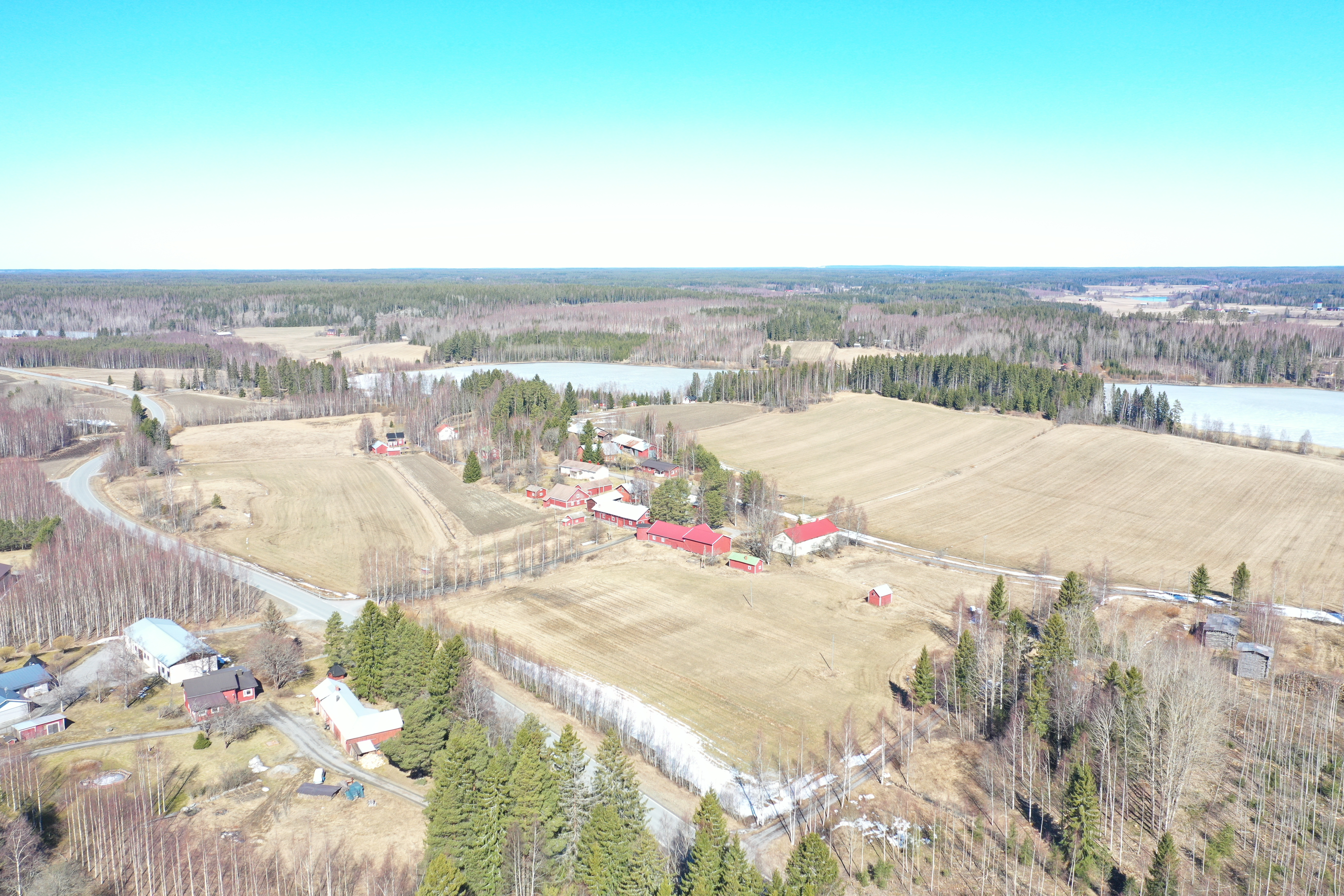 Suodenniemi Village in Suodenniemi town, Finland.